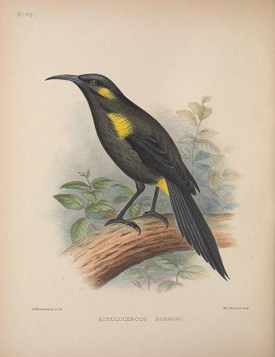 Moho bishopi from The Birds of the Sandwich Islands